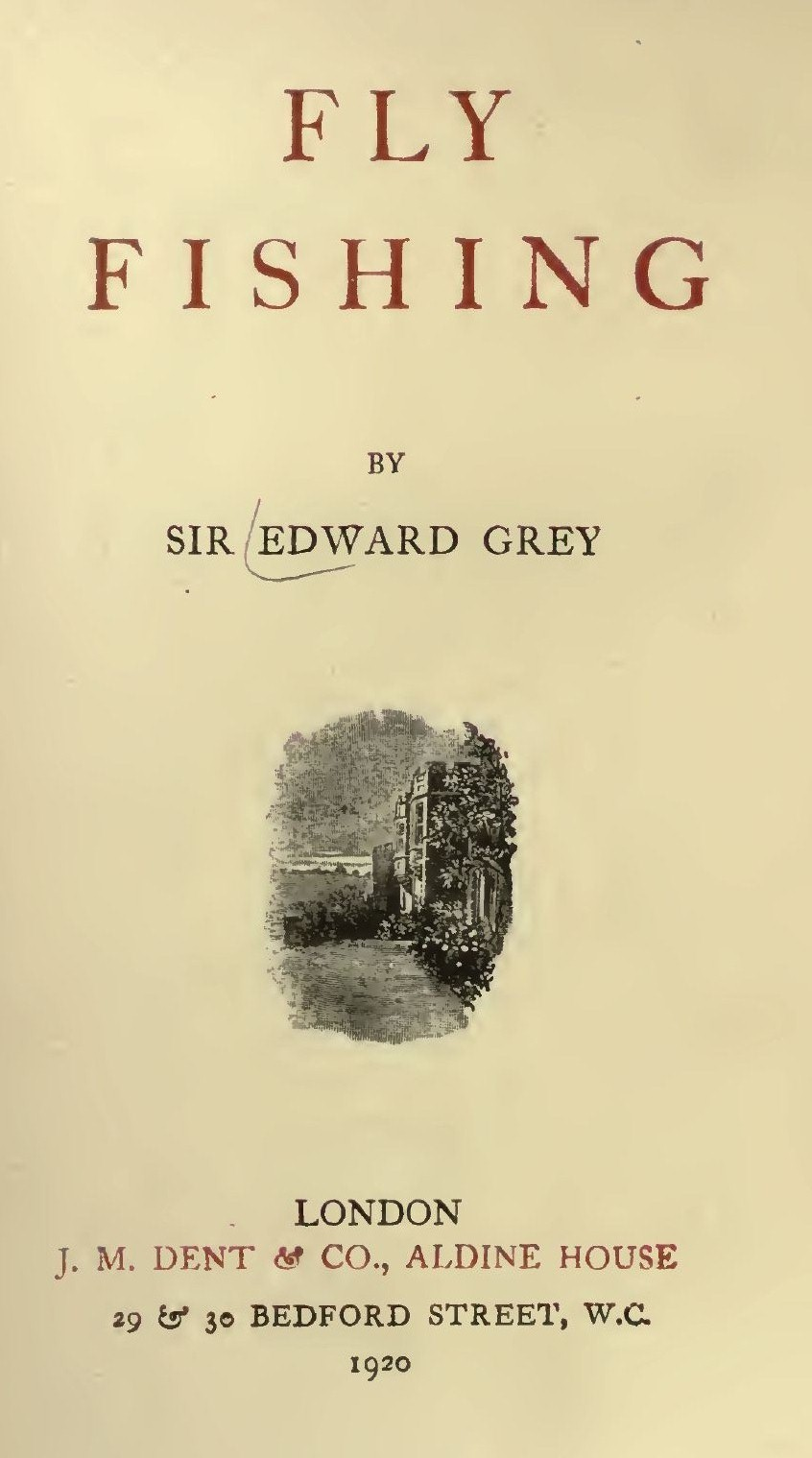 Title page from 4th edition of Fly Fishing by Sir Edward Grey. Downloaded from